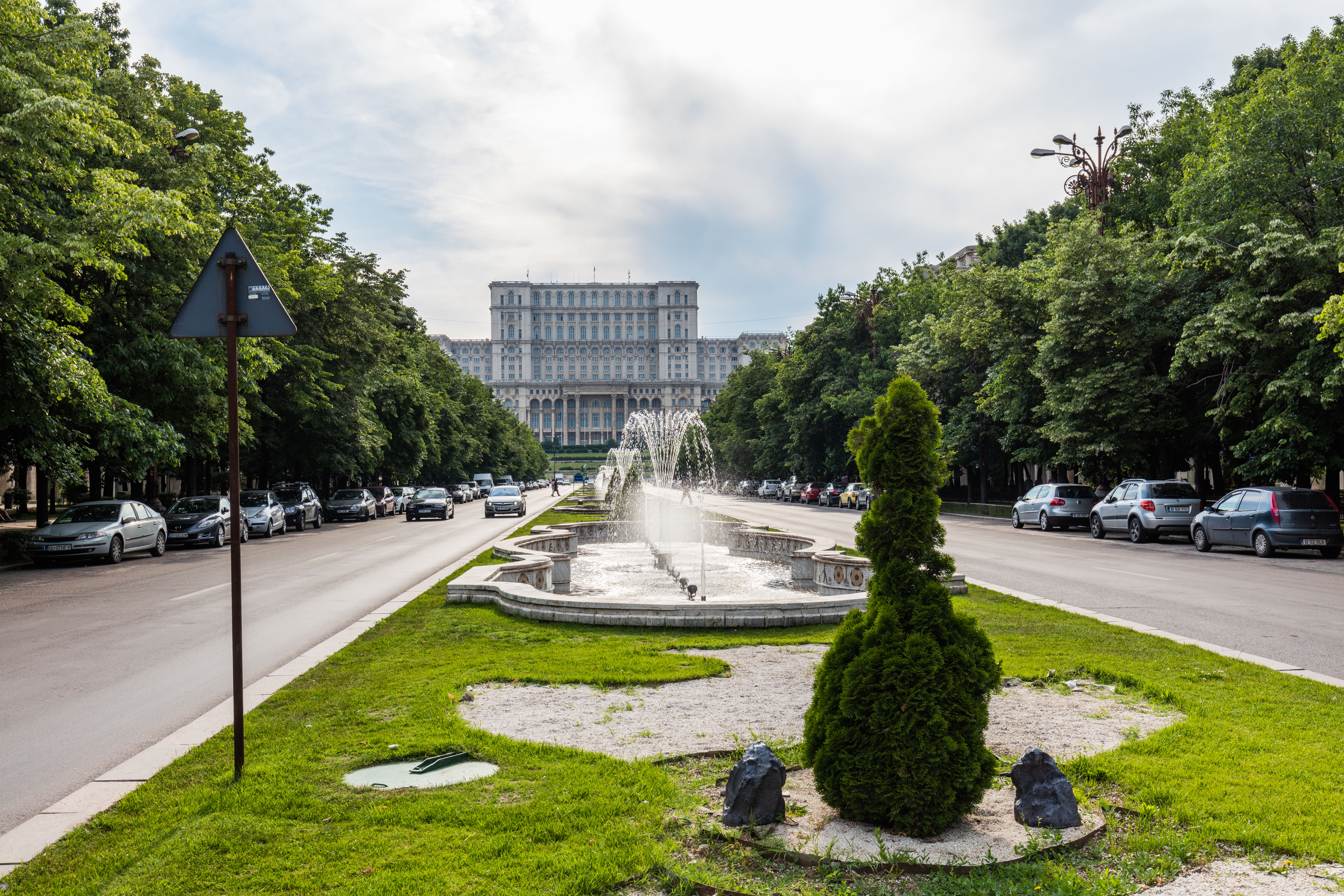 Unity Avenue, Bucharest, Romania